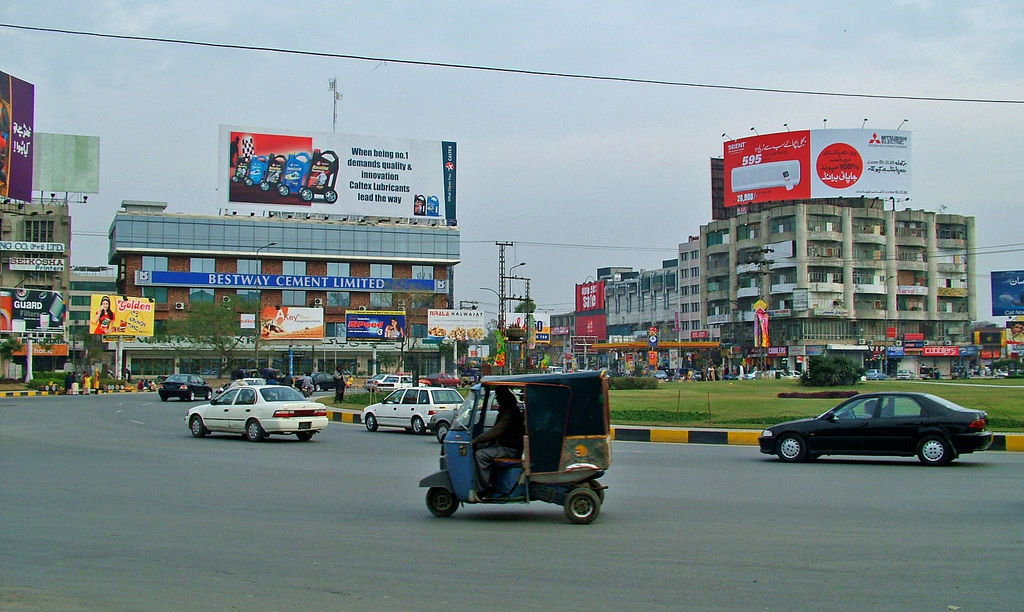 Transport in city